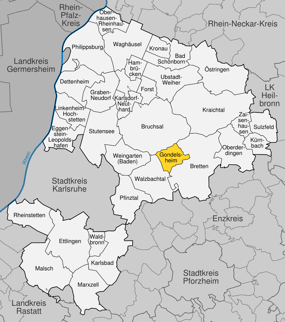 position of Gondelsheim within distict of Karlsruhe, Baden-Württemberg, Germany